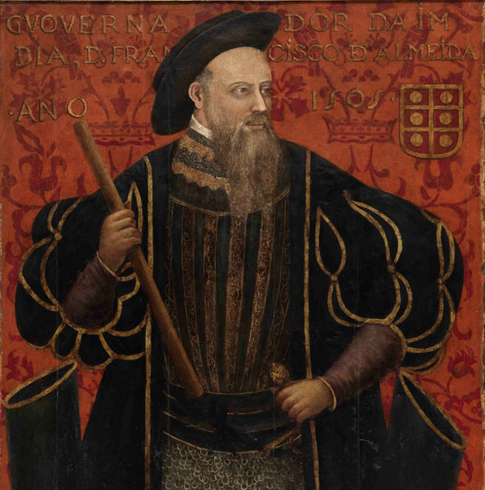 "Portrait of Dom Francisco de Almeida, Viceroy of Portuguese India" (after 1545), by Unknown. At the National Museum of Ancient Art, Lisbon.